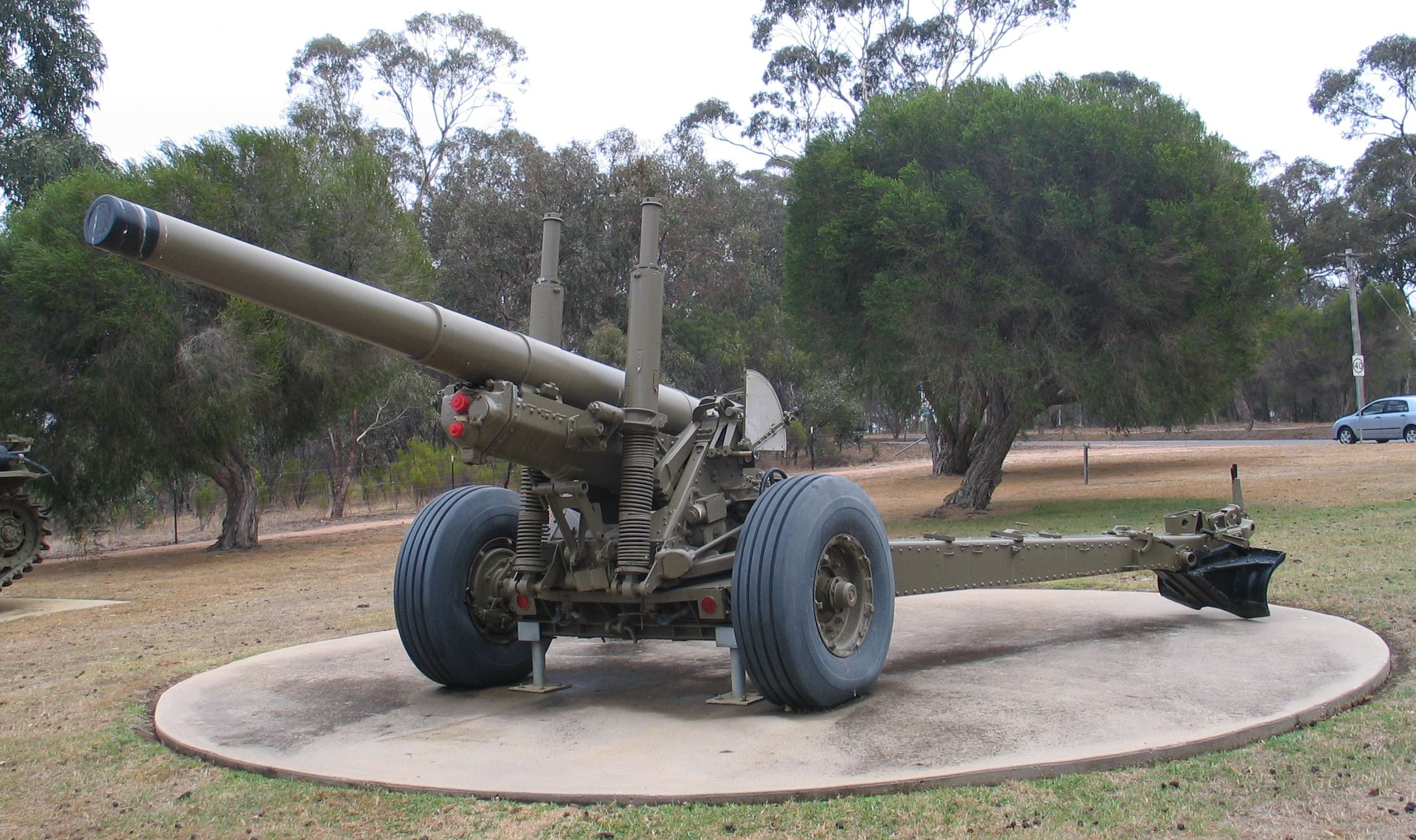 BL 5.5 inch Medium Gun, in the Puckapunyal Army Camp, Victoria, Australia.